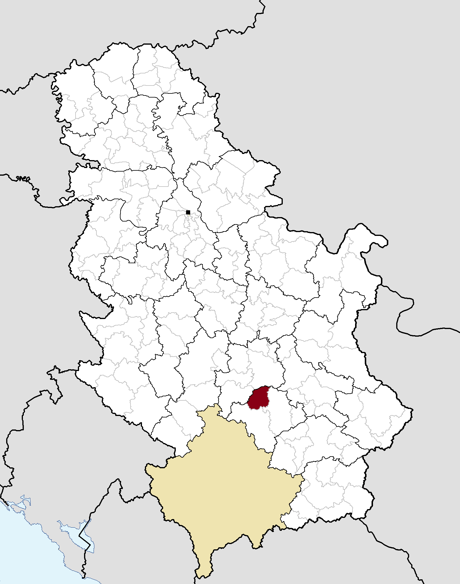 Municipal location in Serbia